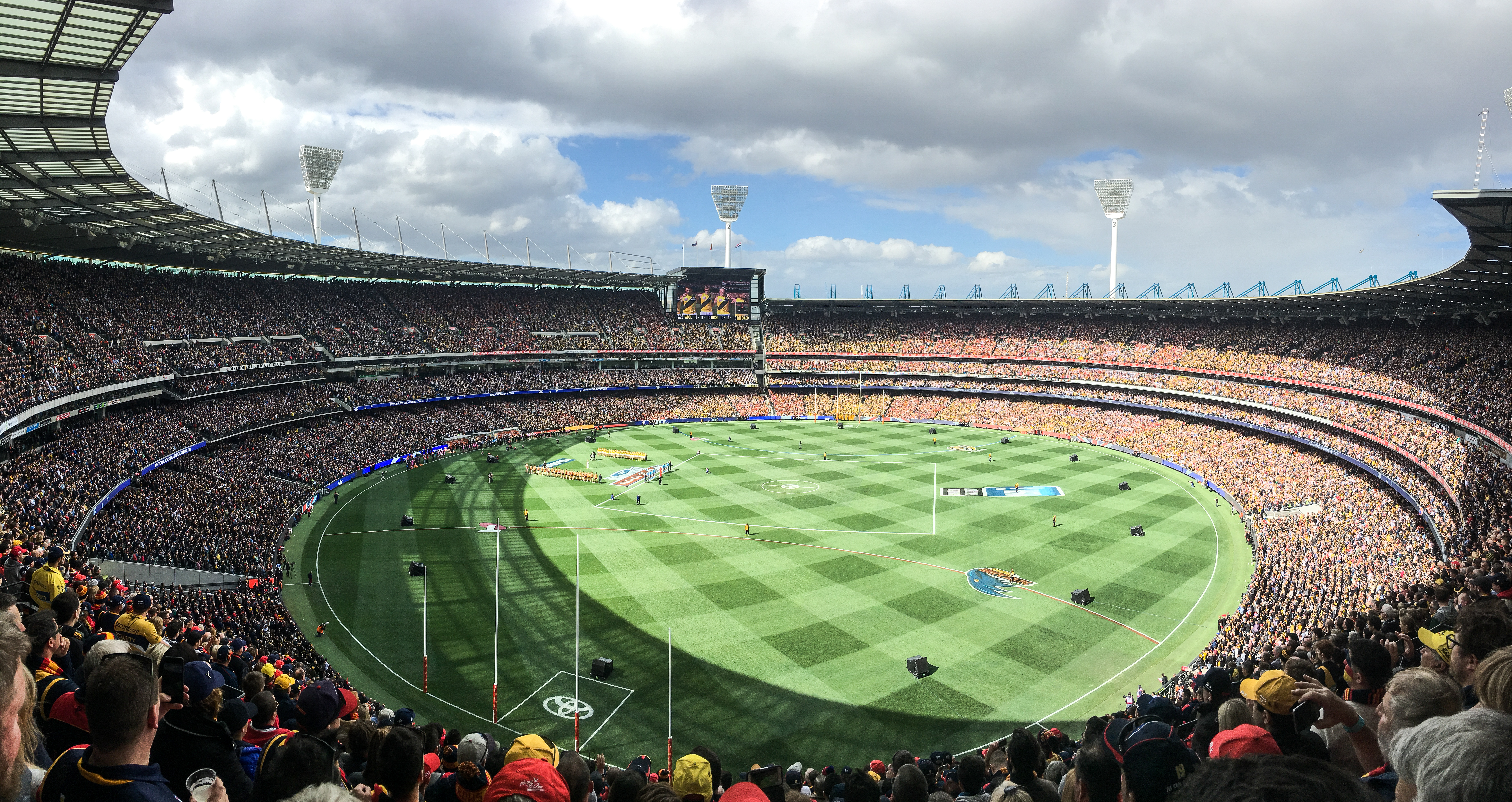 Panorama of the Melbourne Cricket Ground during the national anthem prior to the AFL Grand Final on 30 September 2017 in Melbourne, Victoria.